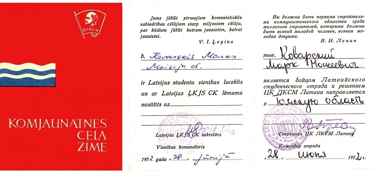 Direction Youth at work Komsomol In The Latvian SSR, (1972)